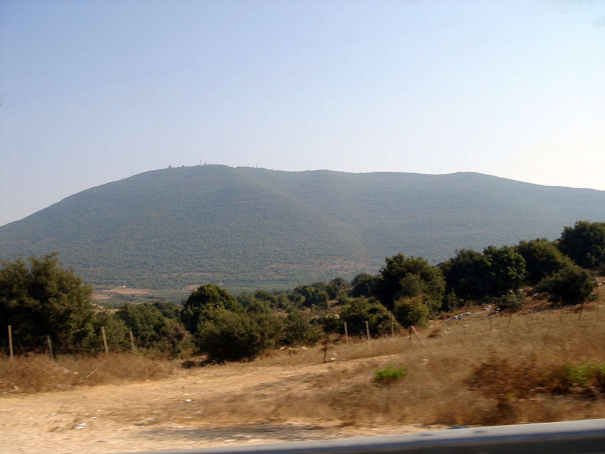 Northern slope of Mount Meron (Har Meron), Israel, after the 2006 Lebanon War.